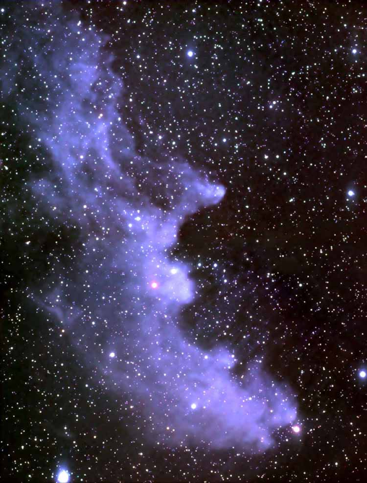 This reflection nebula is associated with the bright star Rigel in the constellation Orion. Known as IC 2118, the Witch Head Nebula glows primarily by light reflected from Rigel, located just outside the top right corner of the image. Fine dust in the nebula reflects the light. The blue color is caused not only by Rigel's blue color but because the dust grains reflect blue light more efficiently than red. The nebula lies about 1000 light-years away. Cross identification: NGC 1909, IC 2118, LBN 959, CED 41, Witch Head nebula (SEDS)